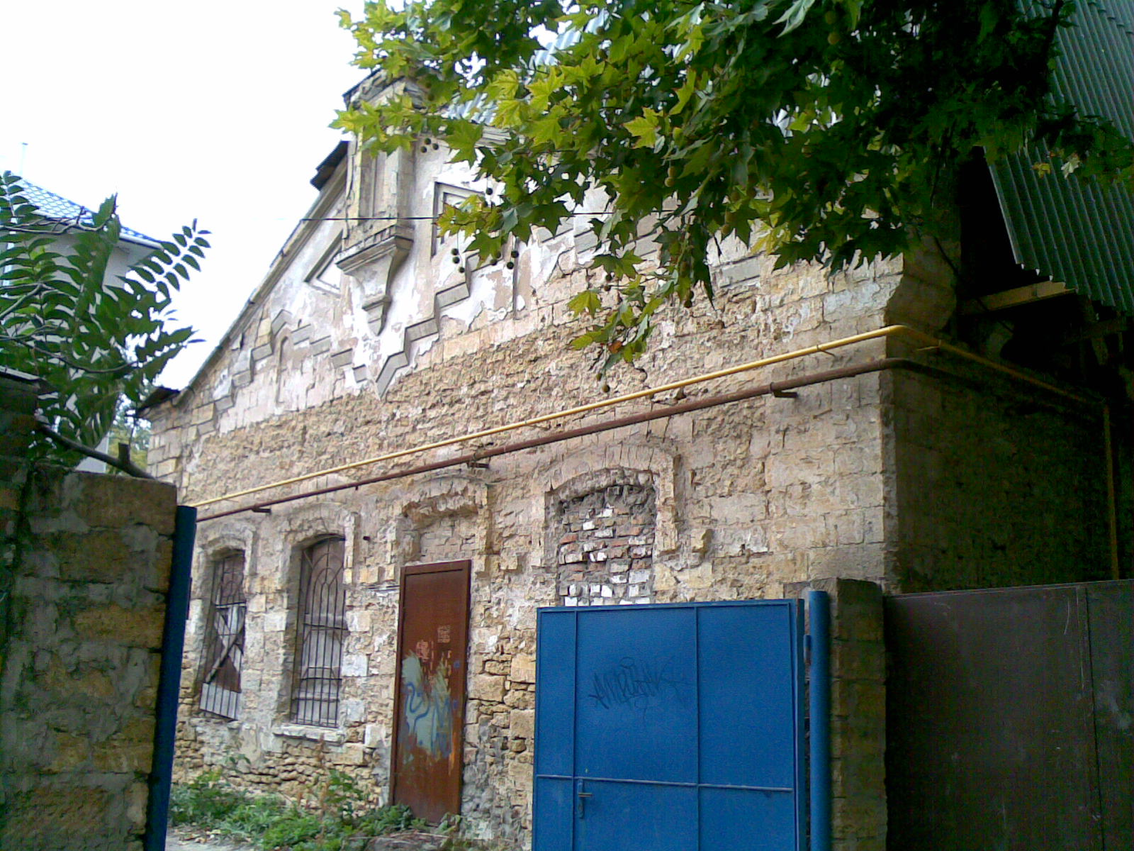 Kherson-Synagogue old-02102009(001).